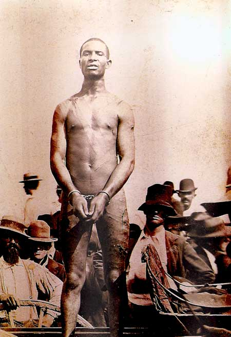 Image of the lynching of Frank Embree, Fayette, Missouri 1899